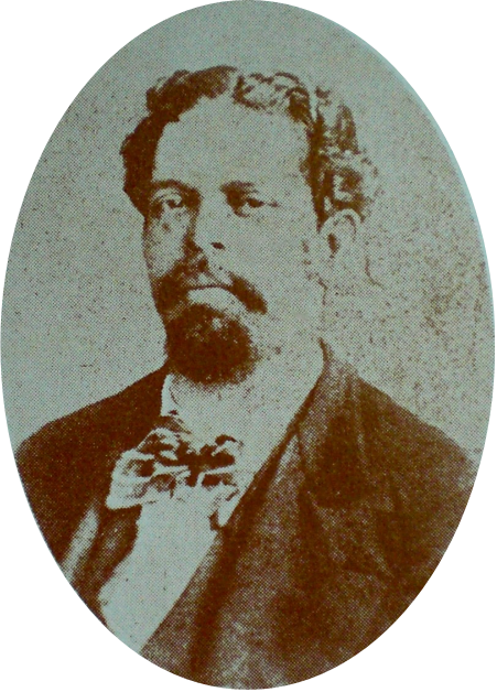 José Ángel Montero (1832 - 1881) was a Venezuelan opera composer, author of the opera Virginia.